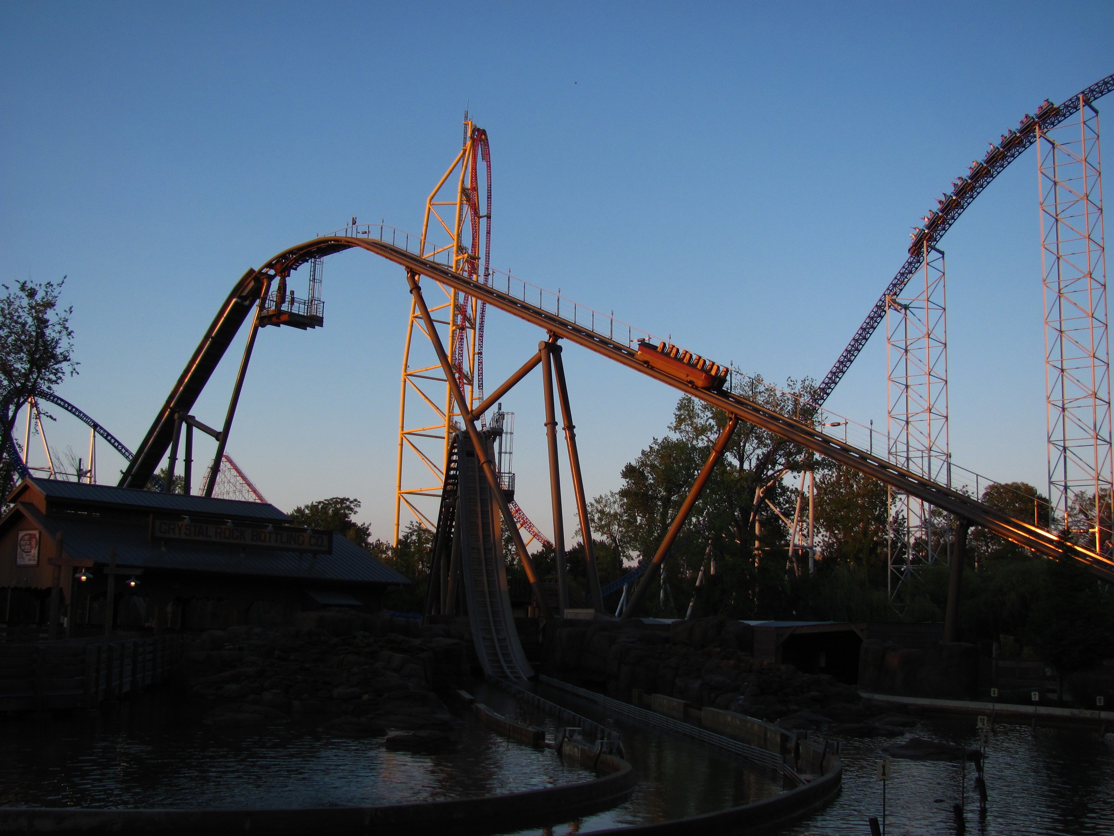 Shoot the Rapids at Cedar Point.